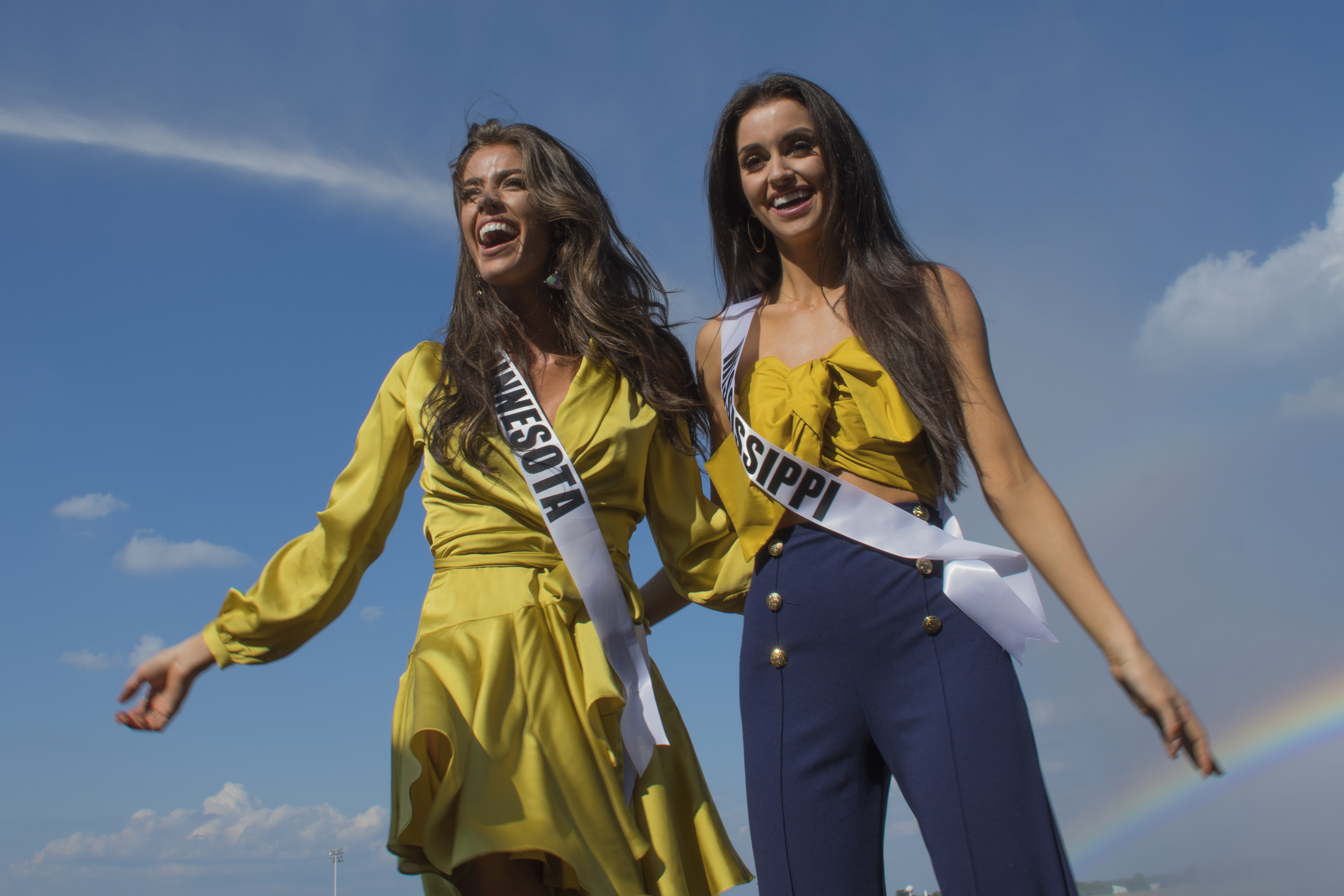 Kalie Wright, Miss Minnesota USA 2018, and Laine Mansour, Miss Mississippi USA 2018, stand in front of water spray from a fire truck during their tour of Barksdale Air Force Base, Louisiana with other contestants in the 2018 Miss USA pageant. The fire trucks are operated by firefighters assigned to the 2nd and 307th Civil Engineering Squadrons at Barksdale as part of the Air Force’s total force integration. (U.S. Air Force photo by Airman Maxwell Daigle/Released)